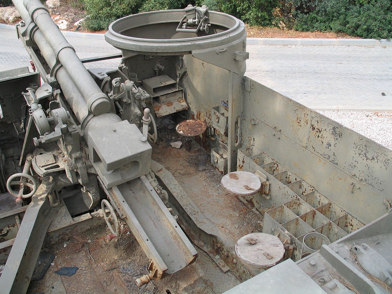 105mm Gun Motor Carriage M7 "Priest" in Beyt ha-Totchan, Zichron Yaakov, Israel.